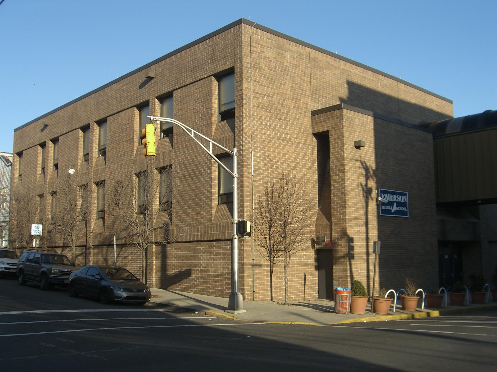 The gym building of Emerson Middle School in Union City, New Jersey. Photo by Luigi Novi. This photo may be used for any purpose, provided that the photographer is visibly credited in each instance where it is used. For further information on the Licensing requirements (See Licensing information below), contact me at here.